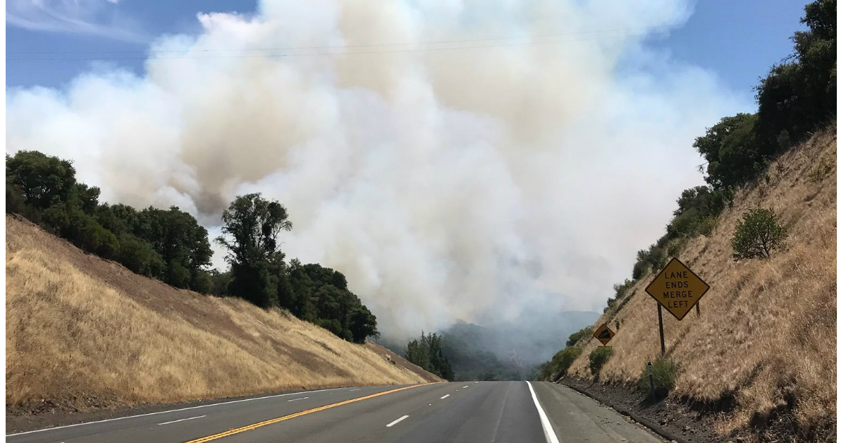 Looking east on Hwy 20 towards the Mendocino Complex fires in Mendocino County, California